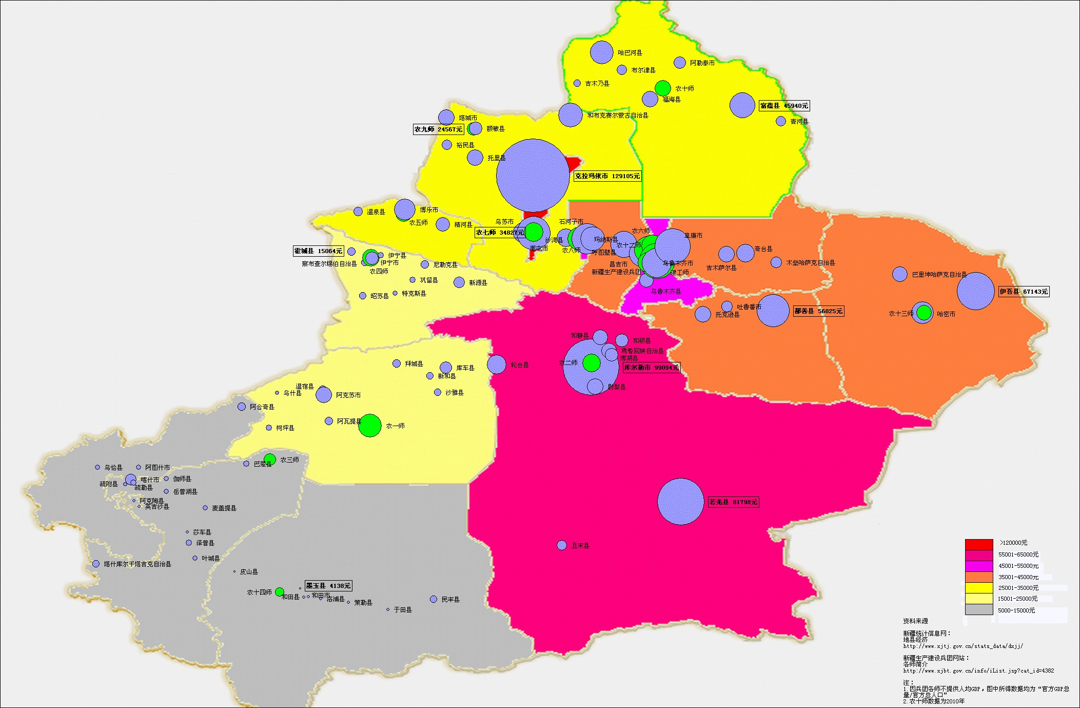 Just as chinese edition.